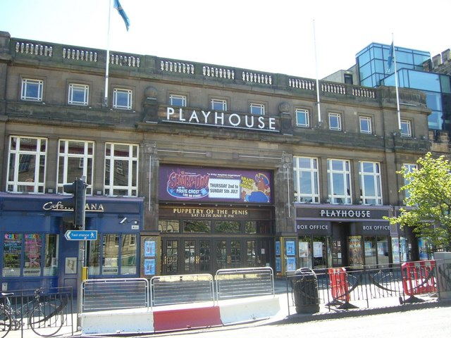 The Playhouse, Greenside Place Originally designed as a theatre by the Glasgow architect, John Fairweather, the Playhouse opened as Scotland's biggest cinema in the first year of the 'talkies' in 1929. It closed in 1974 and was scheduled for demolition, but, thanks to local petitions which collected almost 30,000 signatures, it was saved, renovated and re-opened as a theatre in 1993. Its seating capacity of over 3,000 is still the largest of any theatre building in the UK.